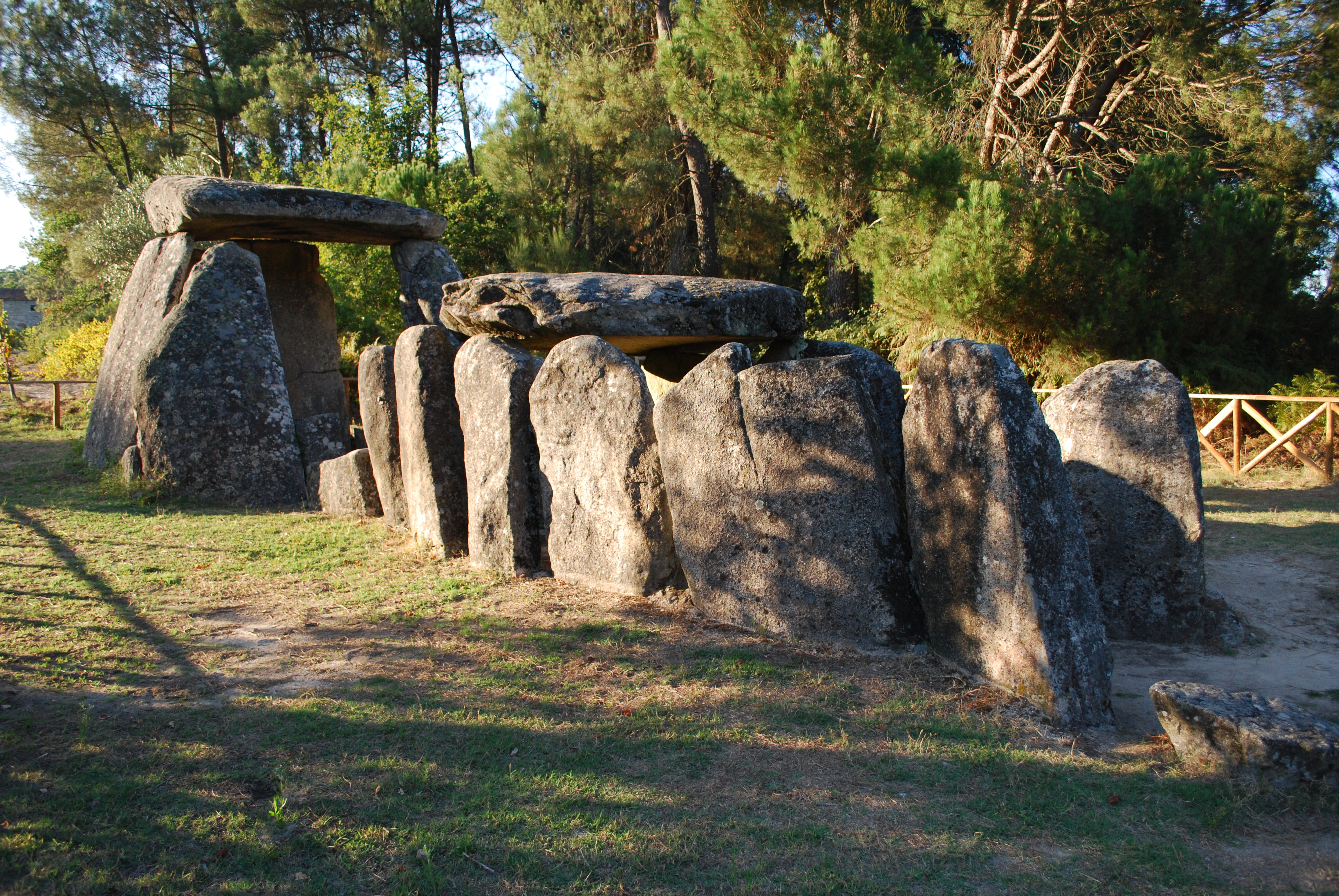 This file was uploaded for Wiki Loves Monuments in Portugal with the unique identifier 70677.